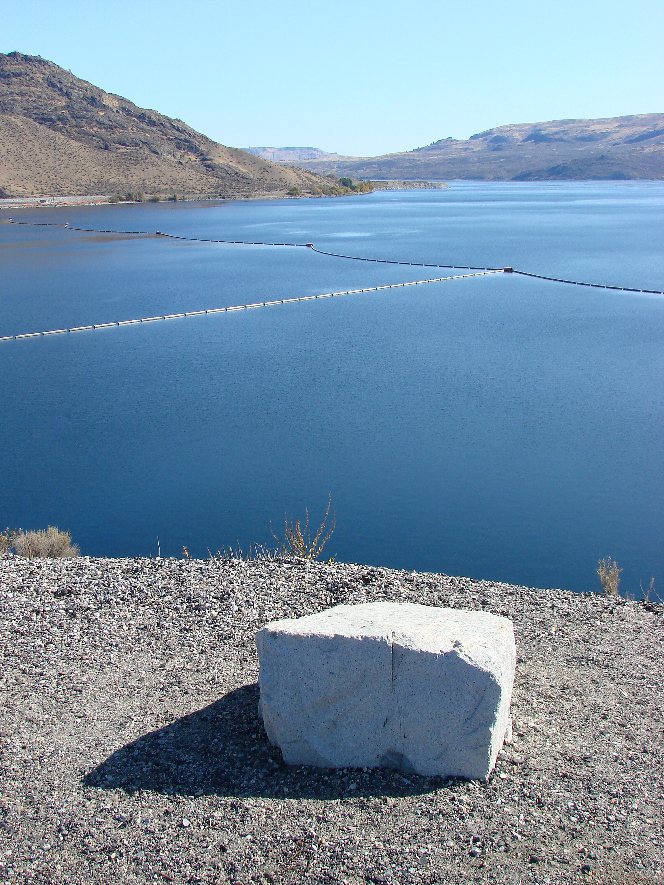 Lake Roosevelt behind Grand Coulee Dam - Eastern Washington State - USA